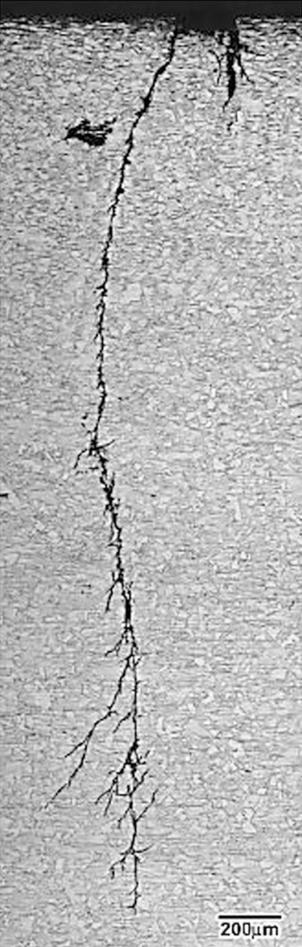 Crack that occurred by stress corrosion cracking on austenitic stainless steel UNS S31603 in drop evaporation test at 110 ºC for 500 h. The applied maximum tensile stress is the half yield stress (139 MPa), and the applied chloride environment is synthetic seawater (pH 8.2). The detail can be found on the source.